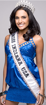 Crown and banner photo of Miss Indiana USA 2009